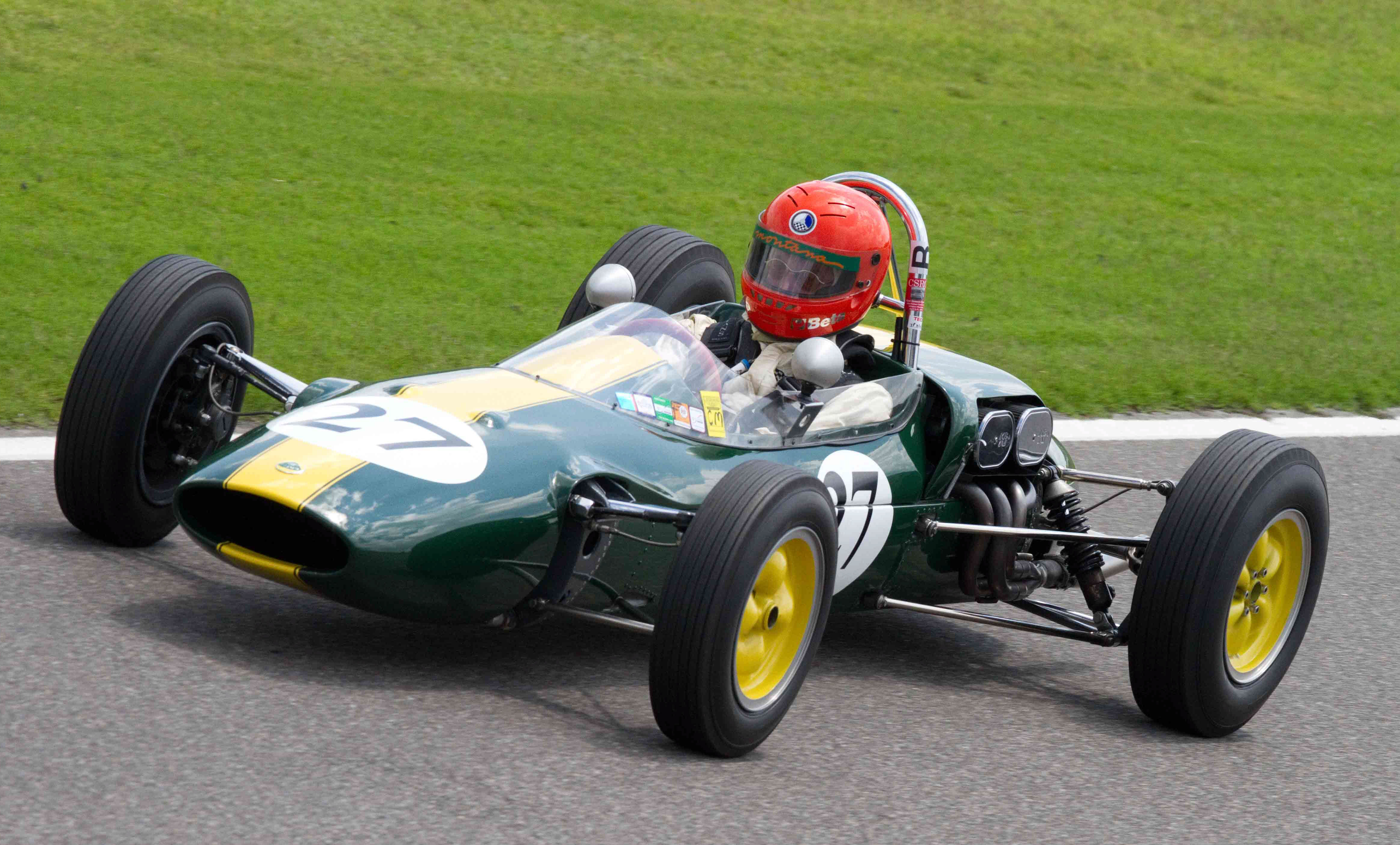 Lotus 25 at Barber Motorsports Park, 2010